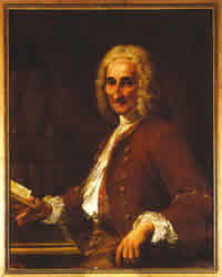 Portrait of French physician and ophthalmologist François Pourfour du Petit (1664-1741)